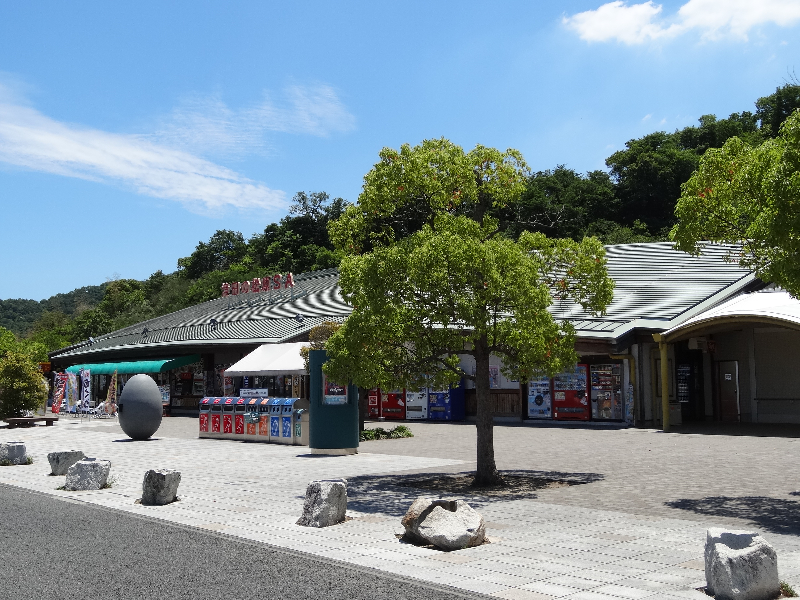 Takamatsu Expressway Tsudanomatsubara Service Area downside